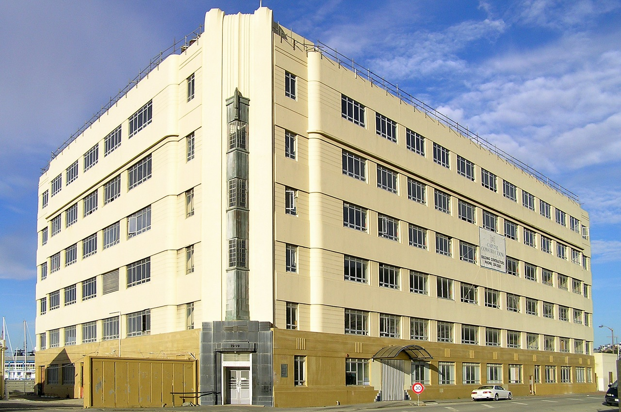 Herd Street Post Office Building, Pre rebuilding in 2005